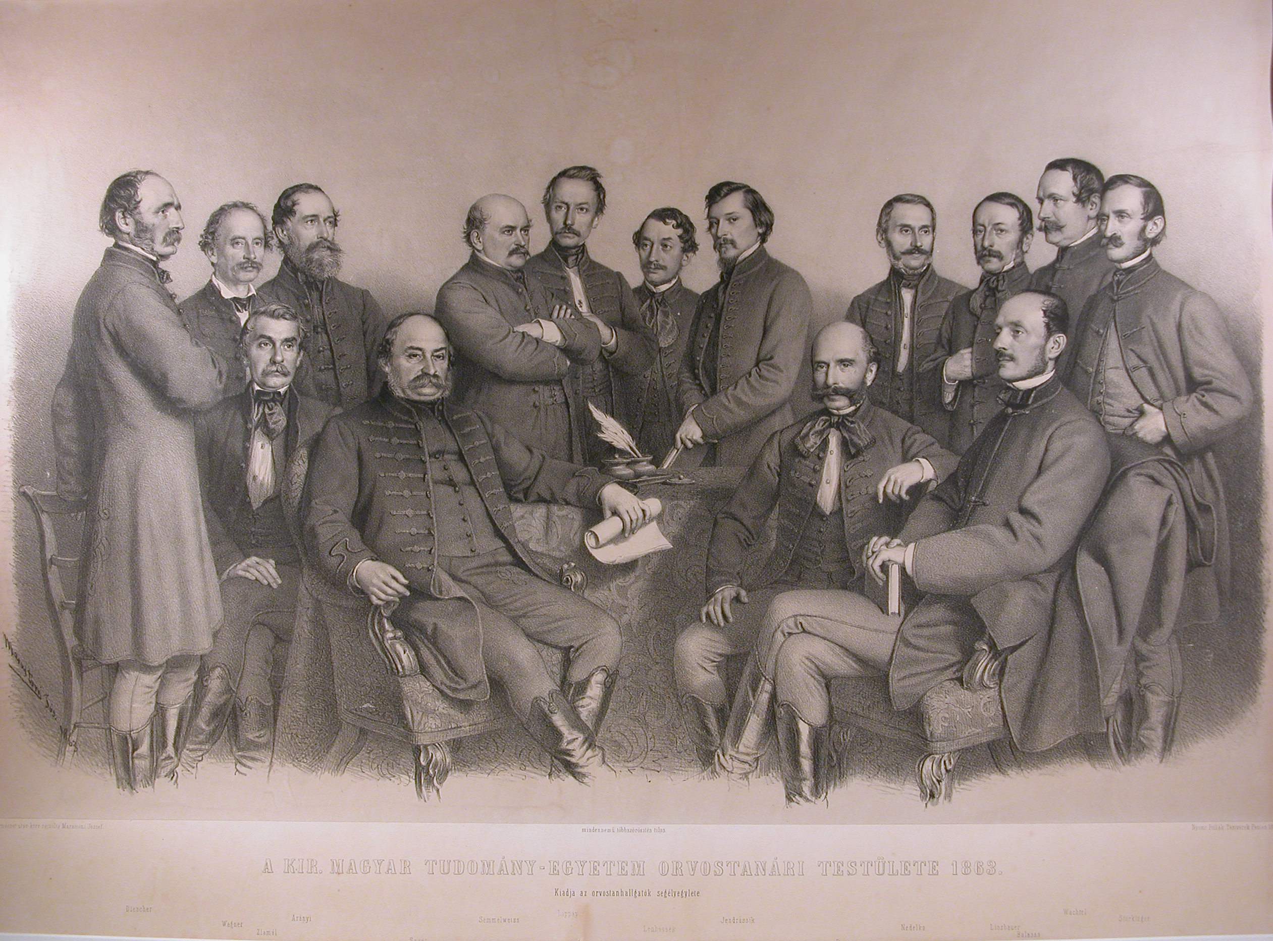 Professors at the medical faculty, University of Pest, 1863. Semmelweis standing, arms crossed. Standing left is János Diescher, Semmelweis successor.